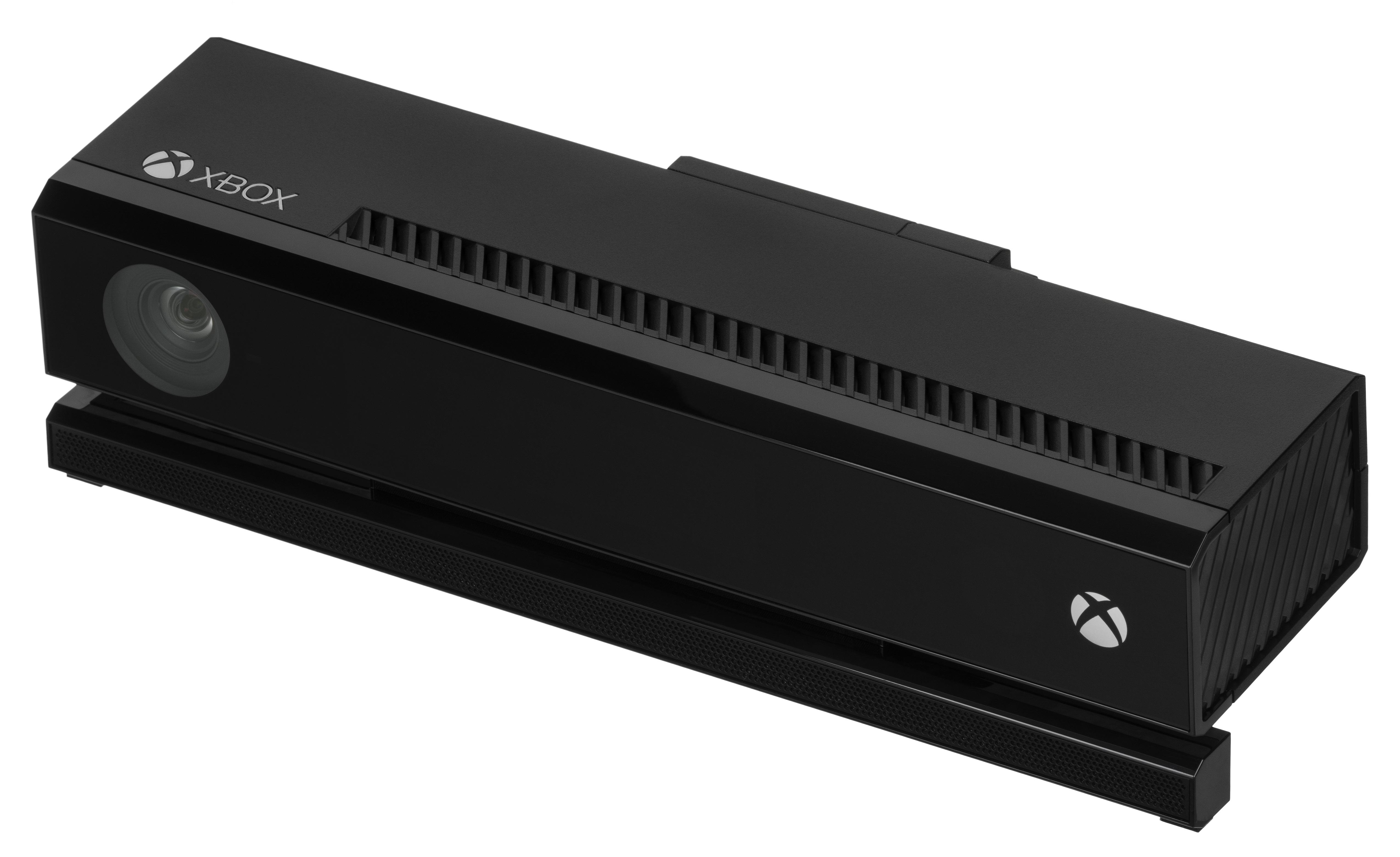 The Xbox One's Kinect, a motion controller peripheral for the console. The Kinect uses a multiple camera types and microphones to let a user control the xbox with motion and sound. The Xbox One was heavily designed around the Kinect and many of its features require the use of it. It was originally packed in with all systems until June of 2014, where it became possible to buy an Xbox One without it. As of June 2014 it is not available for singular purchase.